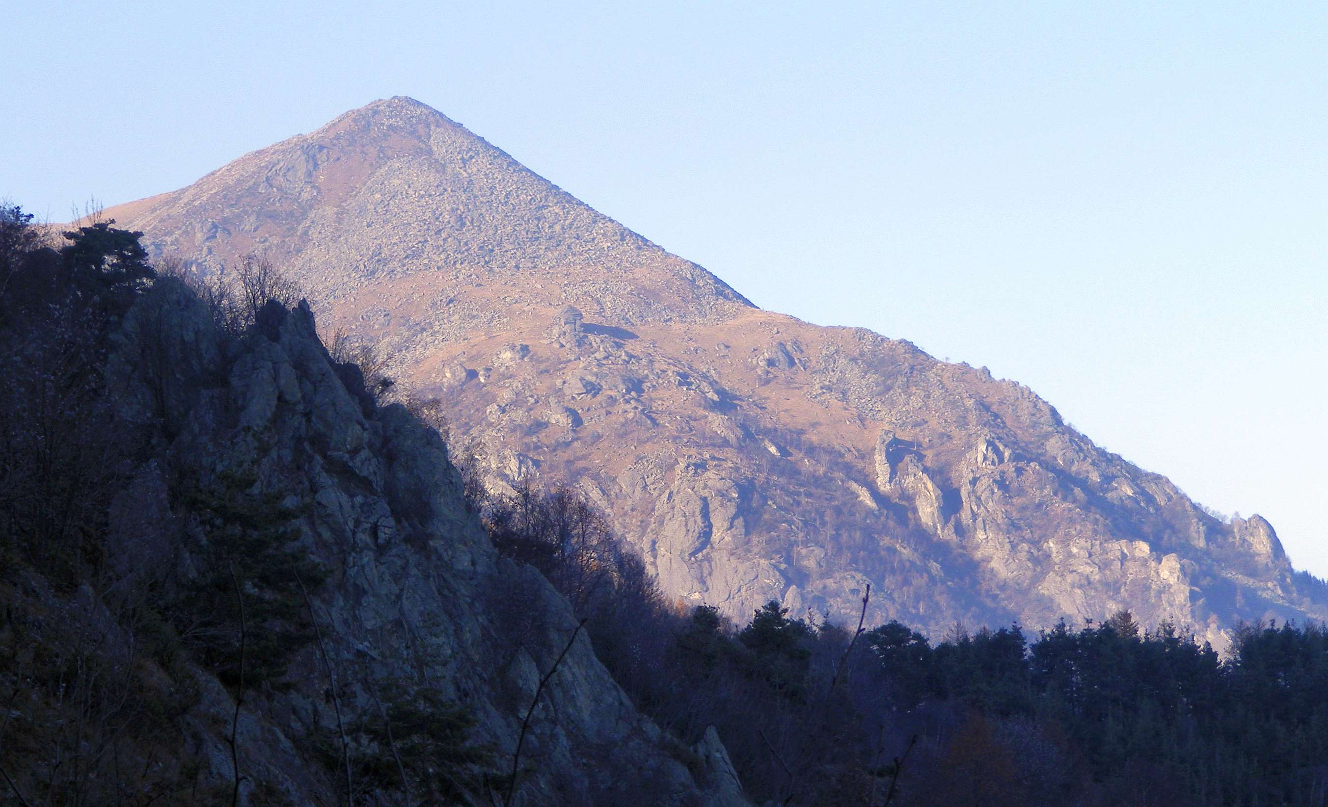 Monte Rognoso from eastren slopes of Roccasella (TO, Italy)